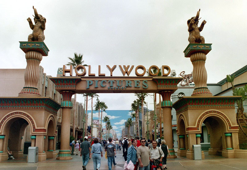 Hollywood Backlot at California Adventure. Taken by Ellen Levy Finch (User:Elf) Sept 2002.